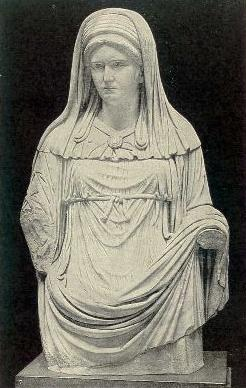 From the statue in Rome. Costume of a chief vestal (virgo vestalis maxima).